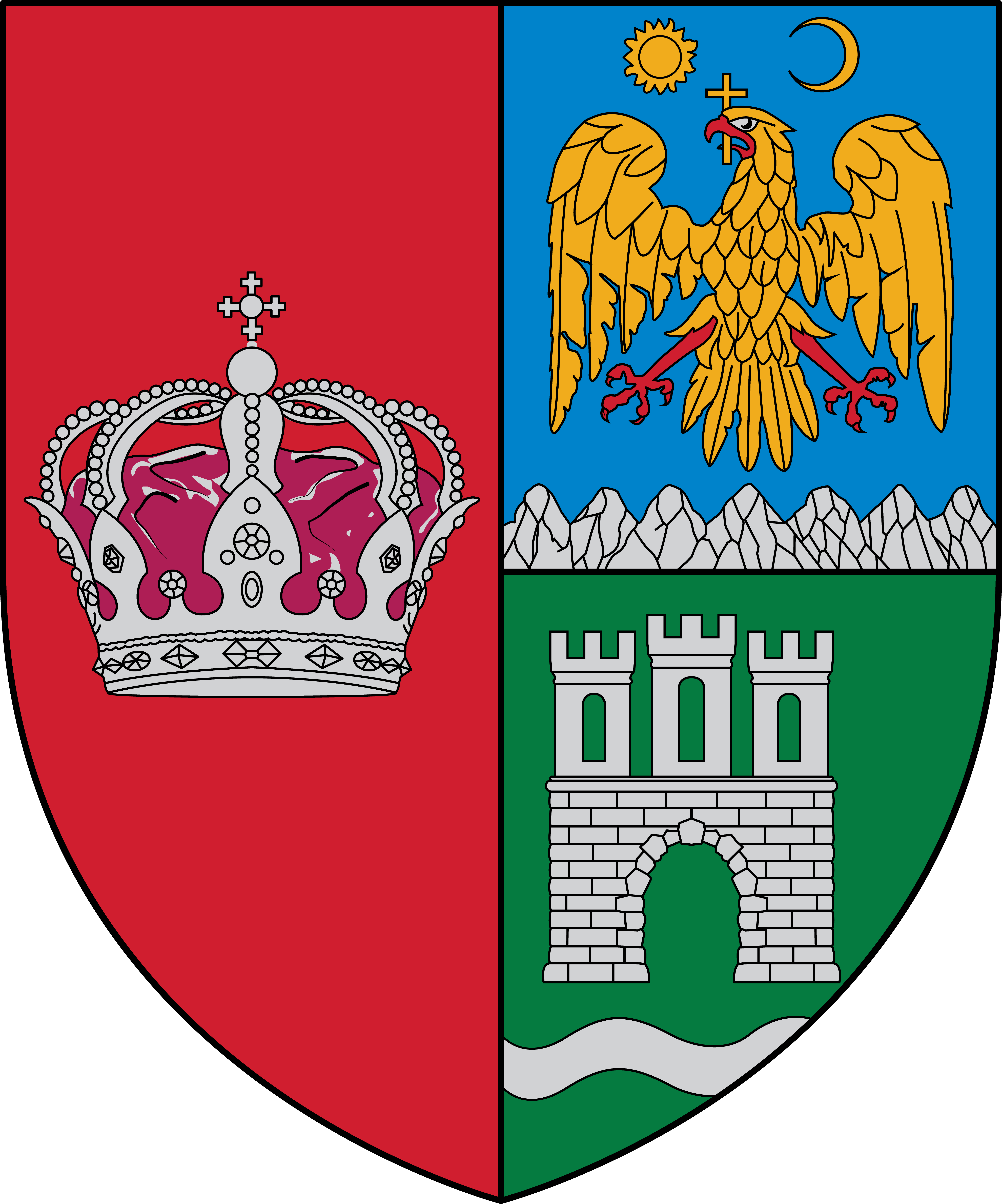 New coat of arms of Brasov county